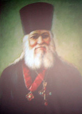 My foto ...